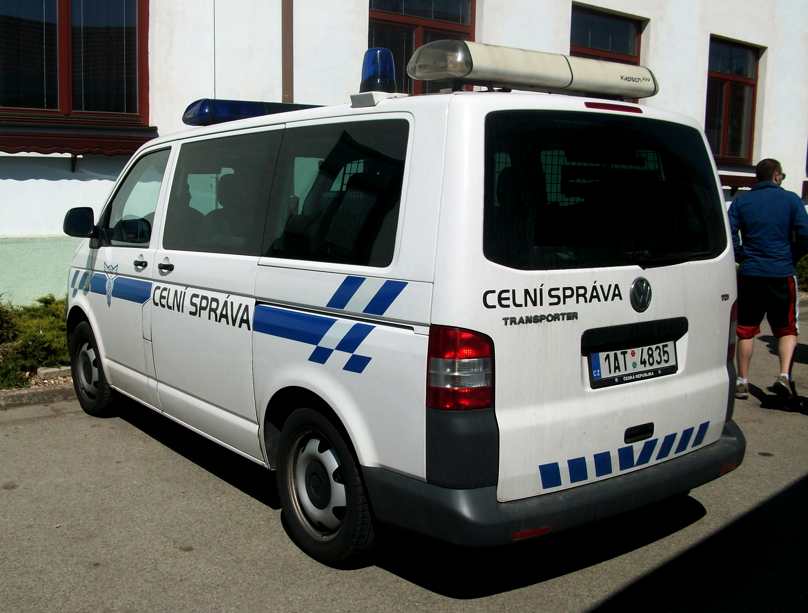 Van of the Customs Administration of the Czech Republic